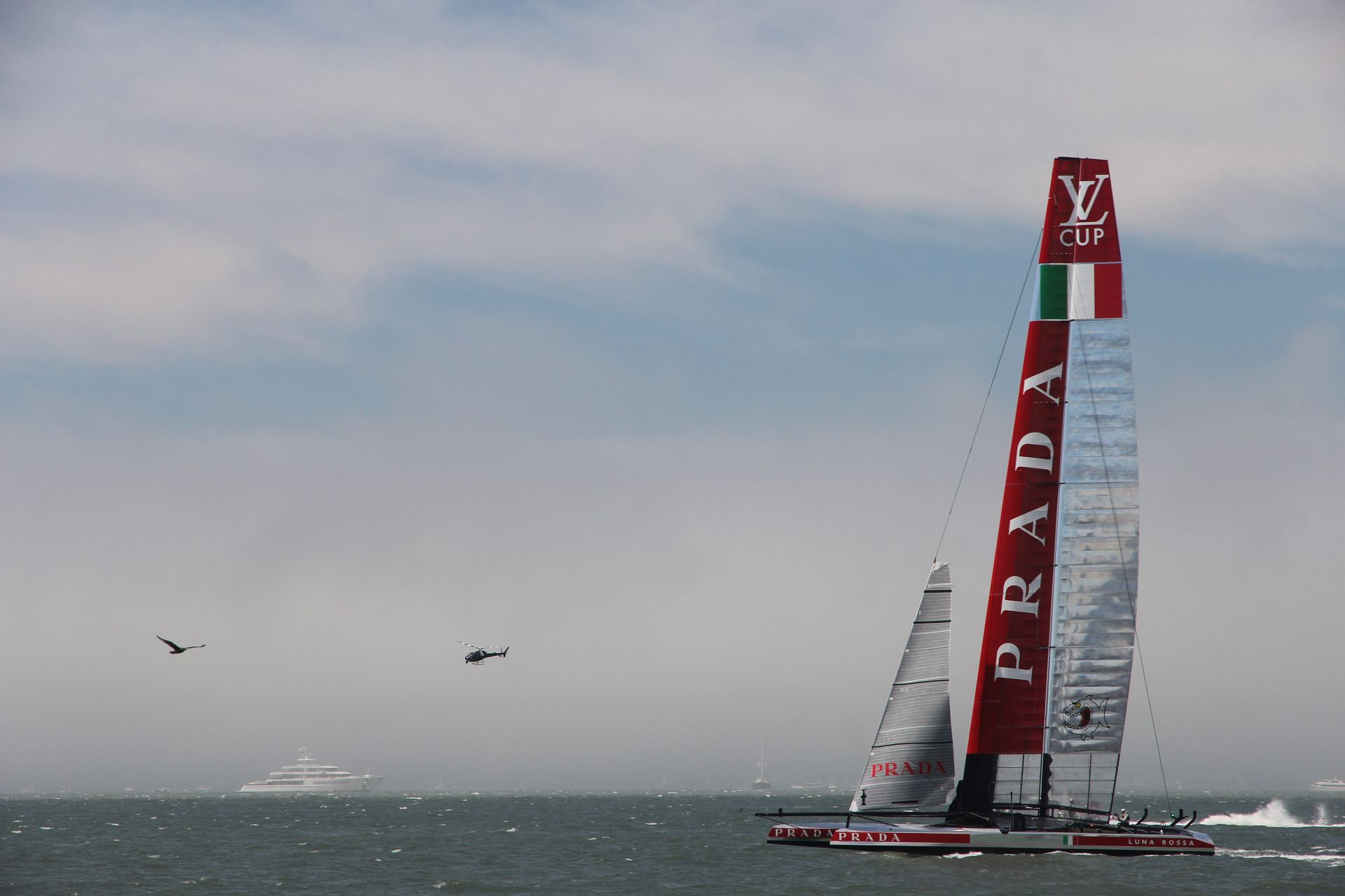 Luna Rossa Challenge AC72 catamaran racing in San Francisco Bay during 2013 Louis Vuitton Cup Finals